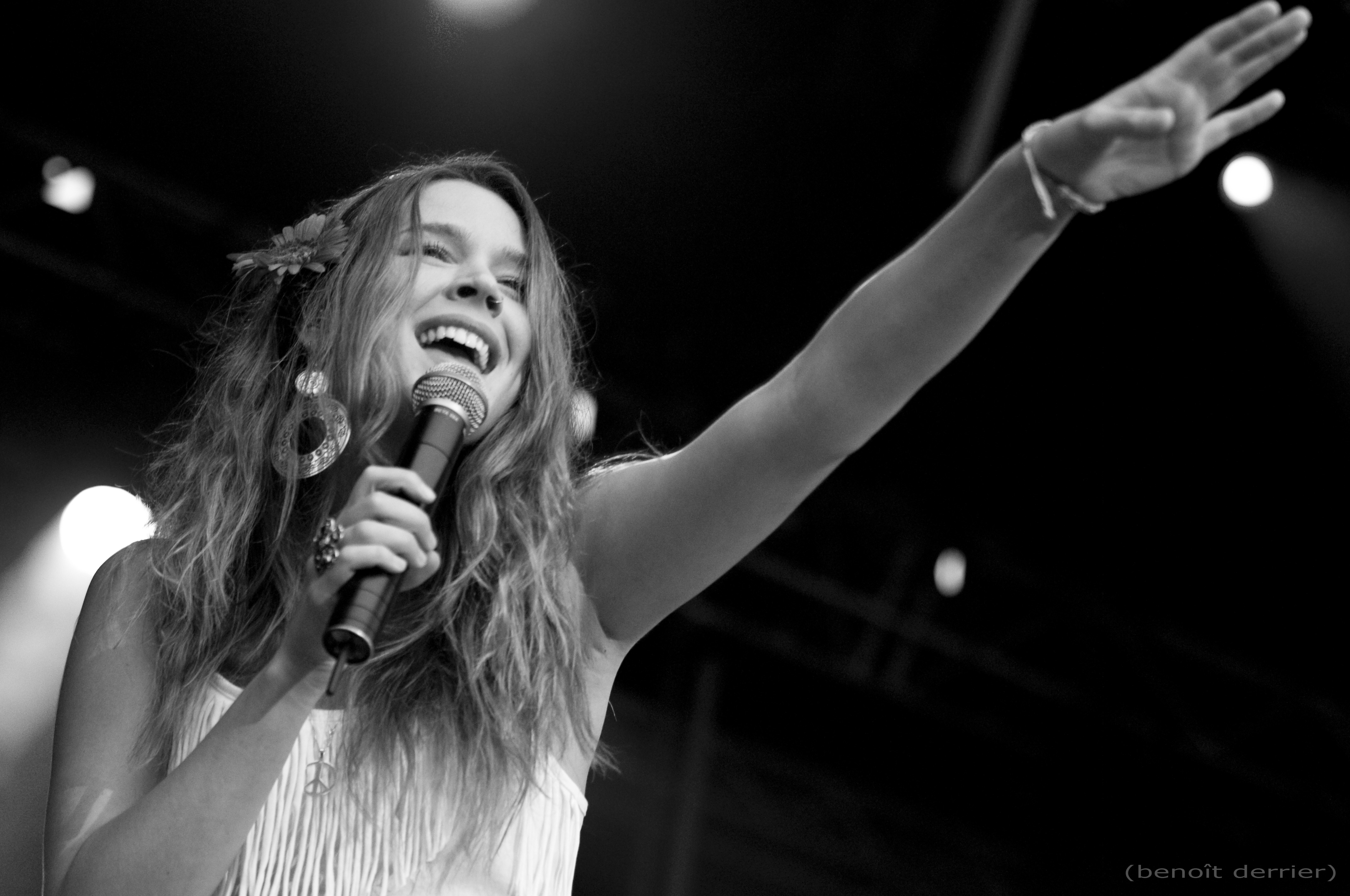 Joss Stone at Stockholm jazz fest, 19th July, 2009.